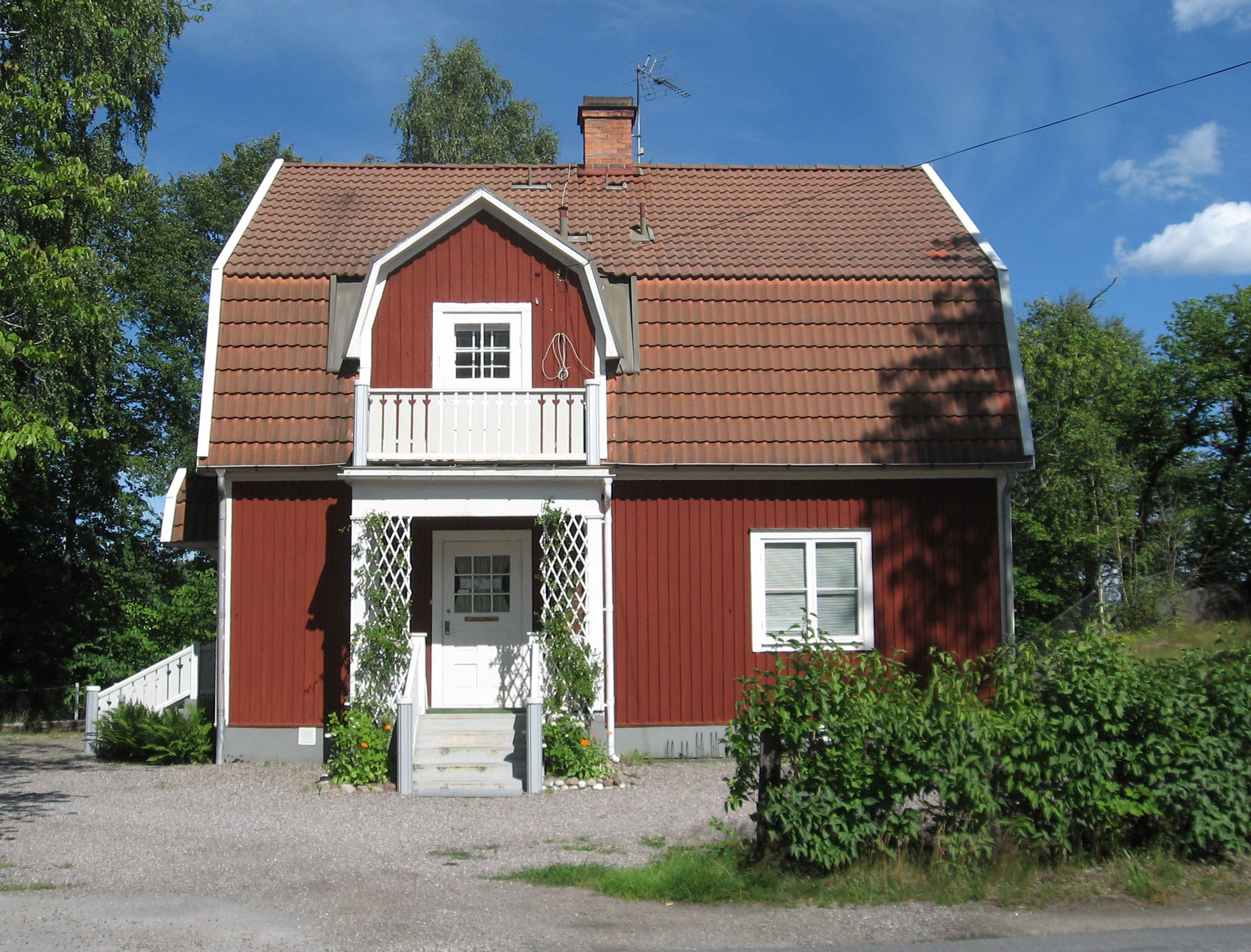 The house of the Suomi-seura (Finland Society) in Finspång, Sweden